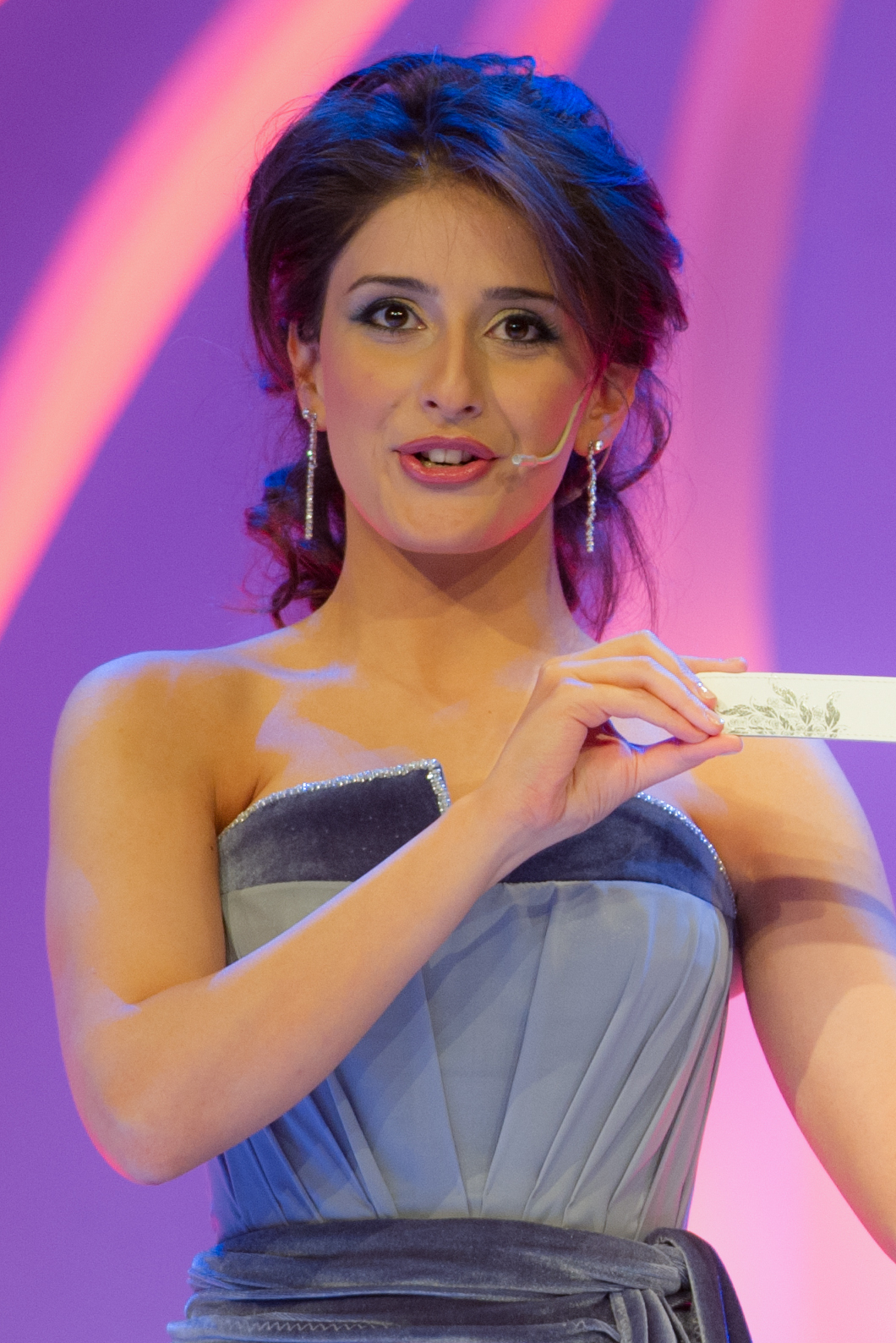 Leyla Aliyeva (presenter). Eurovision Song Contest 2012, semi-final allocation draw